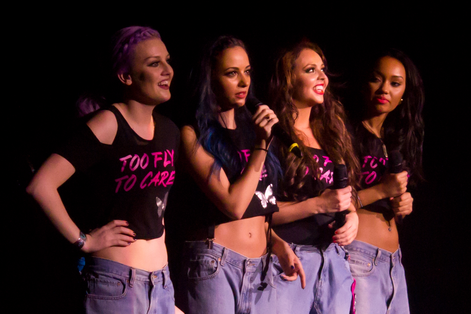 Little Mix during the tour